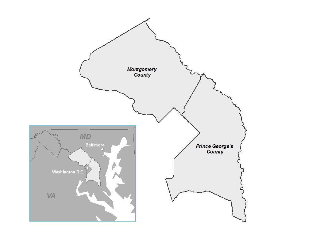 A map of the M-NCPPC's jurisdiction. Created by SteveMHurst (talk) 21:38, 10 February 2012 (UTC)